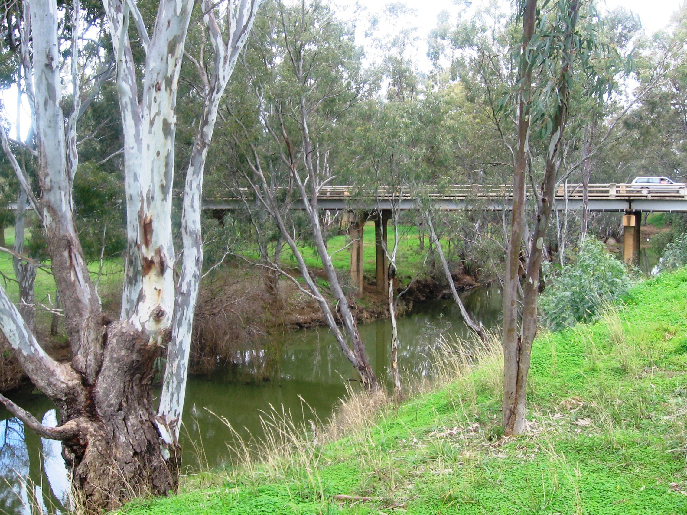 The Campaspe River, at Elmore. The Midland Highway runs over the bridge in the background.